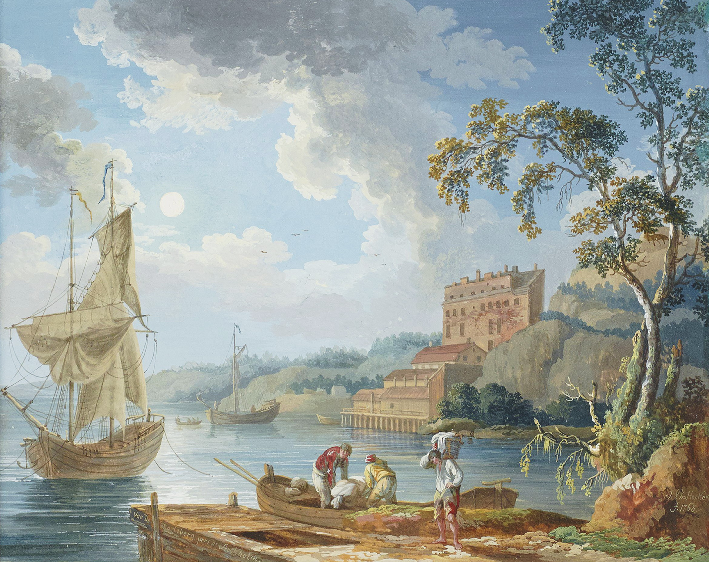 View of the fayence factory in Marieberg near Stockholm